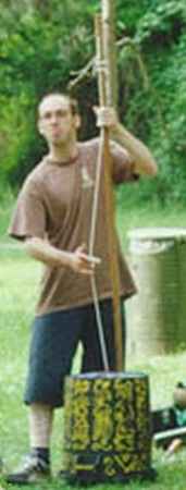 Mattia of the Jabberwocky playing the "bidofono" (autorizzazione 2007020510011195)